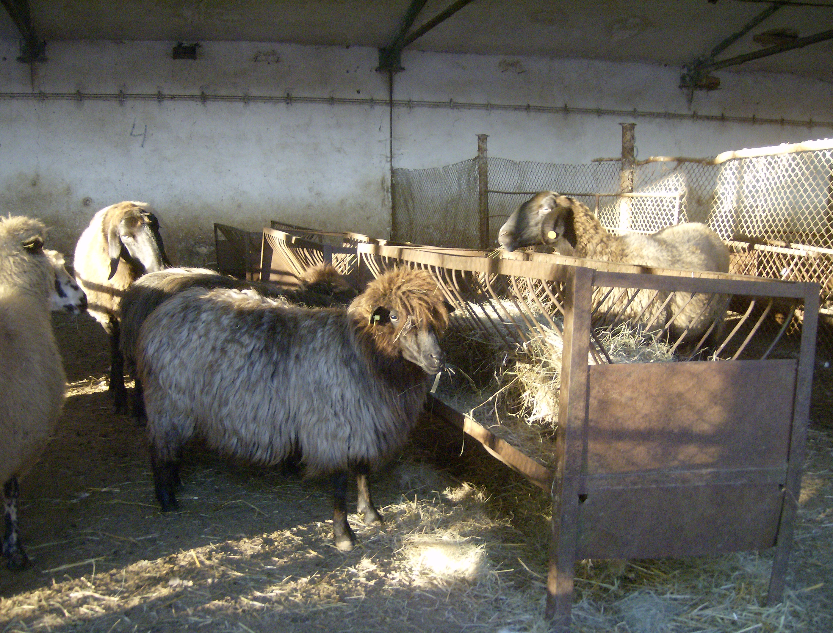 Duben Sheep